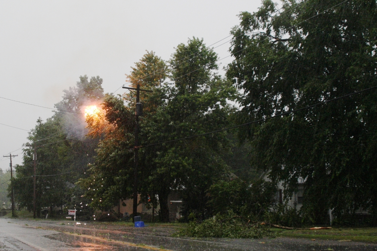 Crossed wires shorting out, Troy, Illinois. After a few minutes of sporadic arcing, the transformer down the street burned out.